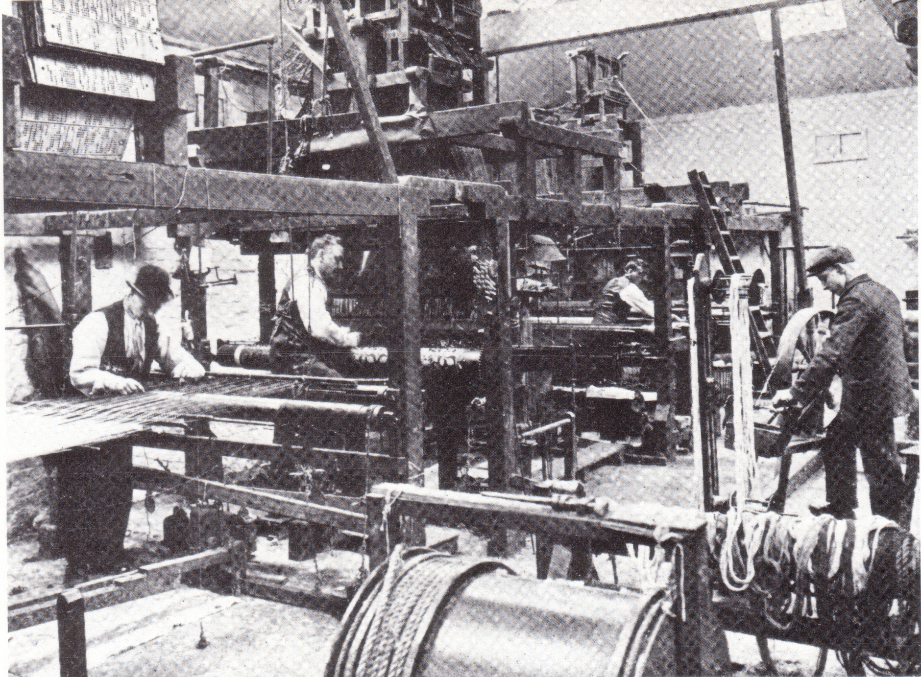 The Weaving Shed at Merton Abbey c. 1890 from Morris & Company, A Brief Sketch Of The Morris Movement and of the Firm Founded by William Morris to Carry Out His Designs and the Industries Revived or Started by Him. Written To Commemorate The Firm's Fiftieth Anniversary In June 1911. Privately printed at the Chiswick Press for Morris & Company, 1911. (Date information from Gillian Naylor, William Morris by Himself: Designs and Writings, London, Little Brown & Co. 2000 reprint of 1988 edition.)